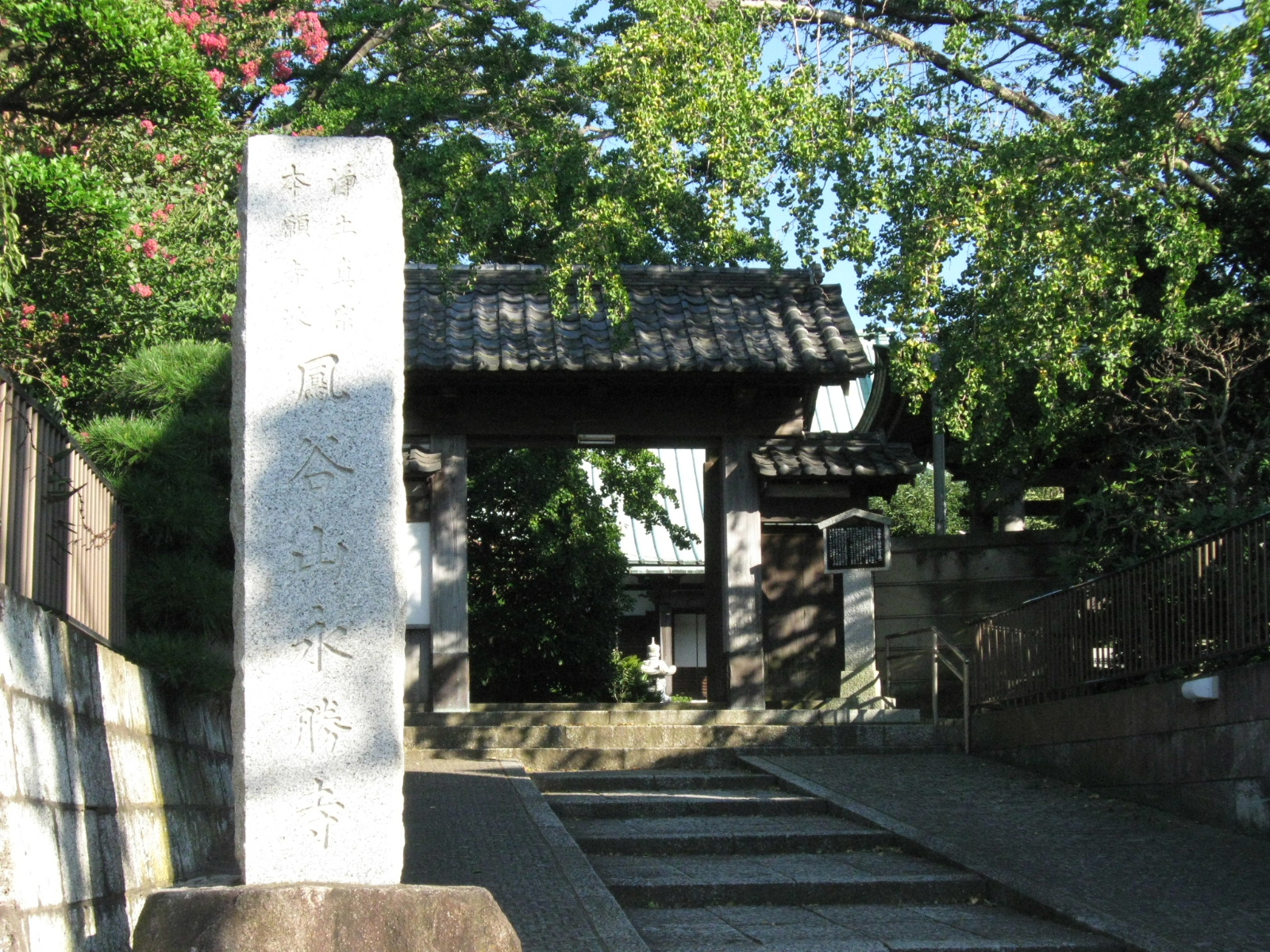 Sanmon at Eishō-ji in Fujisawa City, Kanagawa Prefecture, Japan